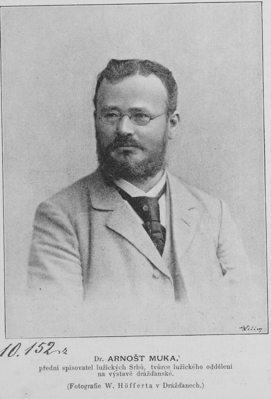 Photograph of Arnošt Muka (1854 - 1932), Sorbian writer from Bautzen.